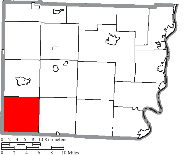 Map of the municipal and township boundaries of Belmont County, Ohio, United States, as of the 2000 census, with the location of Somerset Township highlighted. Township borders are shown only in unincorporated areas in order to differentiate incorporated and unincorporated areas more clearly.